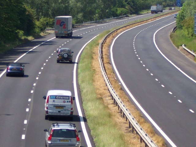 Looking west over the M45 from Southam Road bridge,Dunchurch